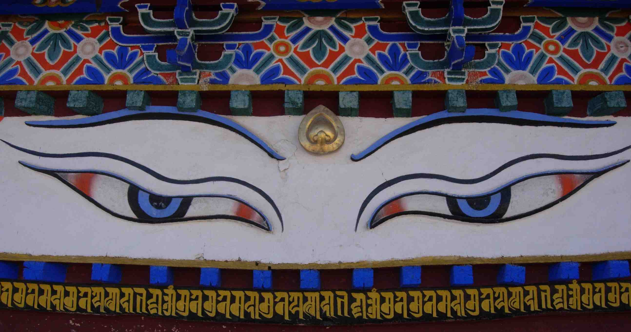 Photographed by Mark Evans (uploader) in November 2005 with a Nikon Coolpix 5200. Photo is of paintings of eyes on the top of the Kumbum in Gyantse, Tibet. Removed from the following pages: Kumbum --OrphanBot 09:24, 24 March 2007 (UTC)